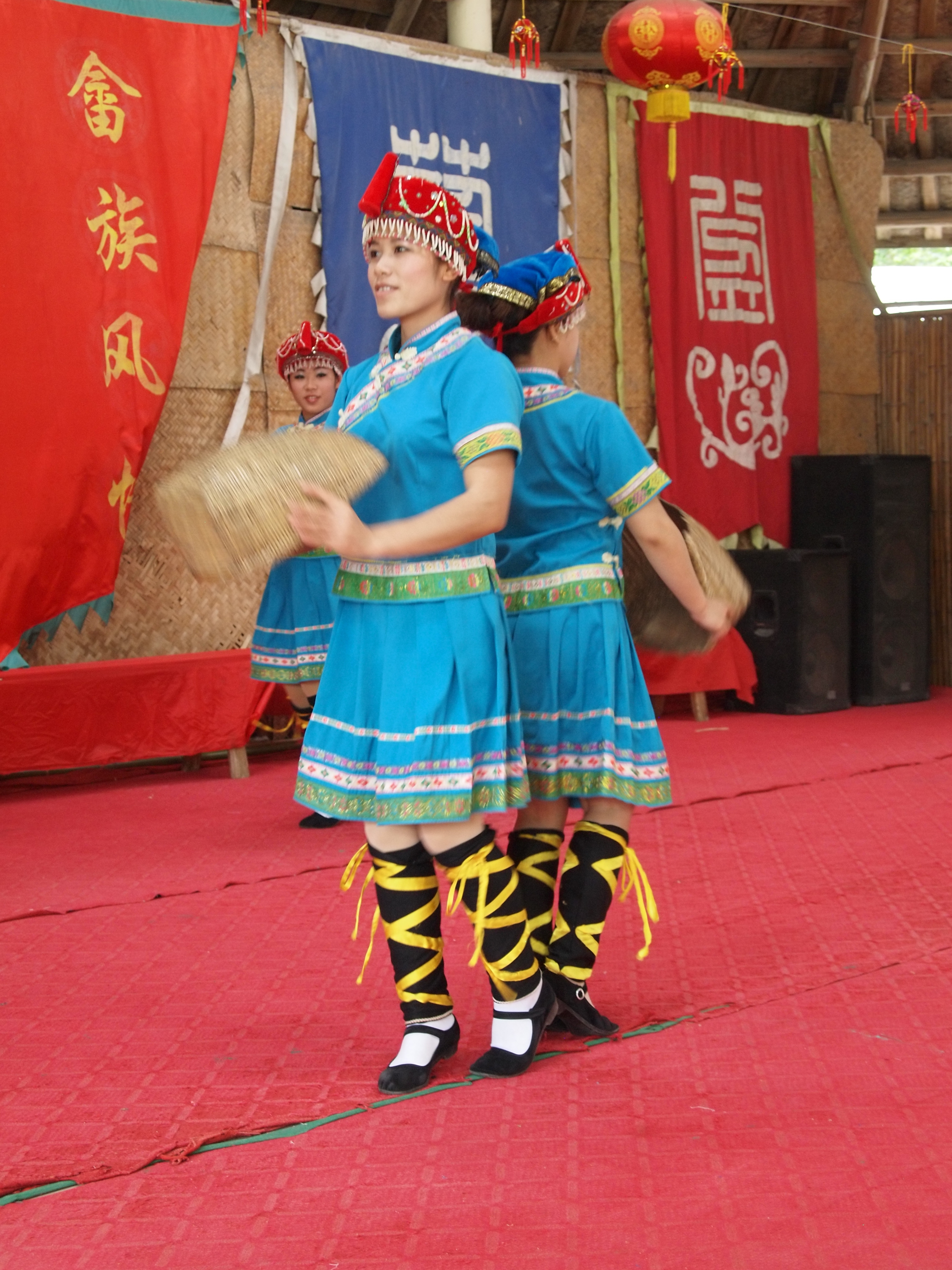 She people (畲族) traditional dance performance in Huanglongyan, Heyuan, Guangdon